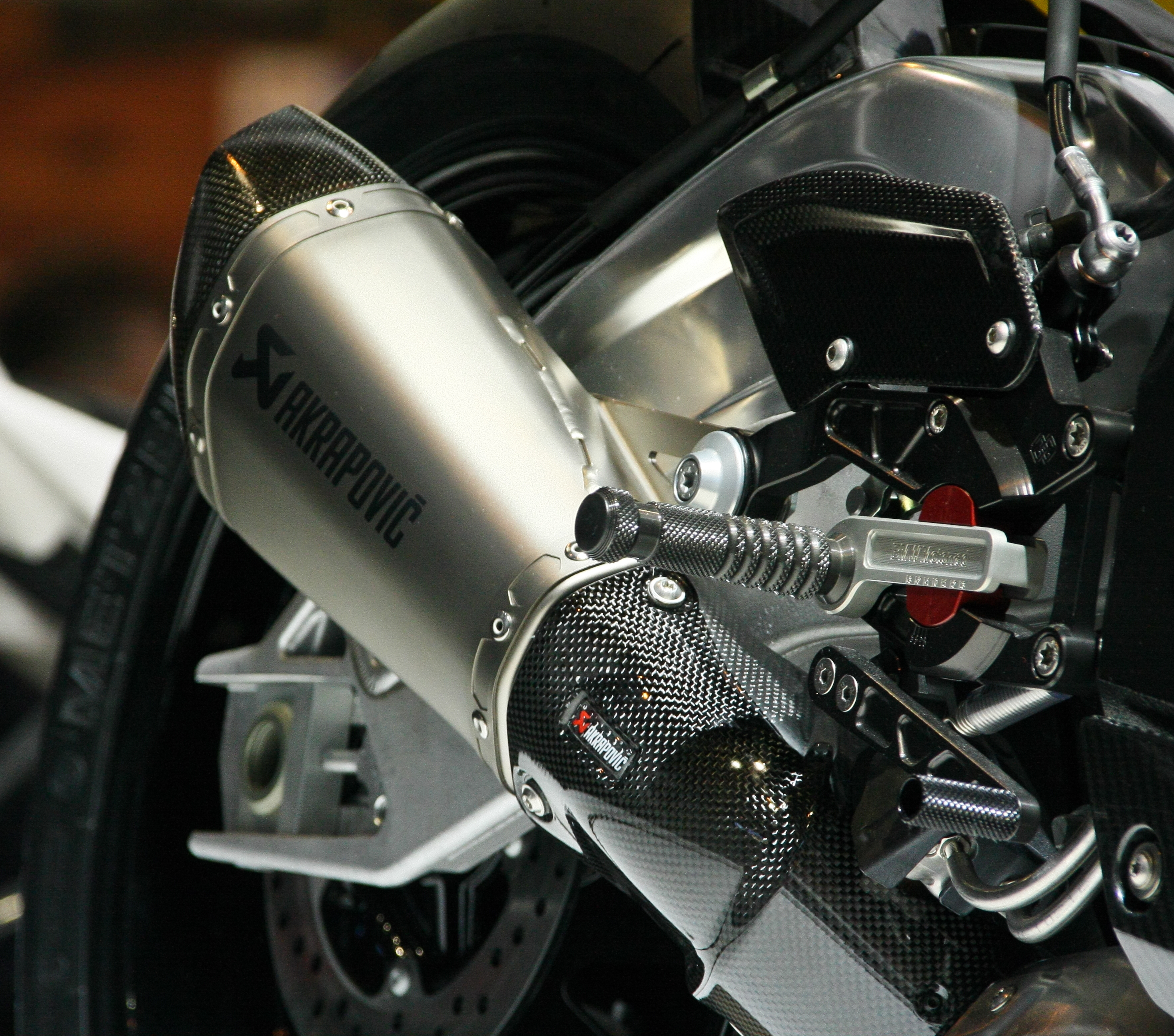 Close up of Akrapovič exhaust on BMW S1000RR